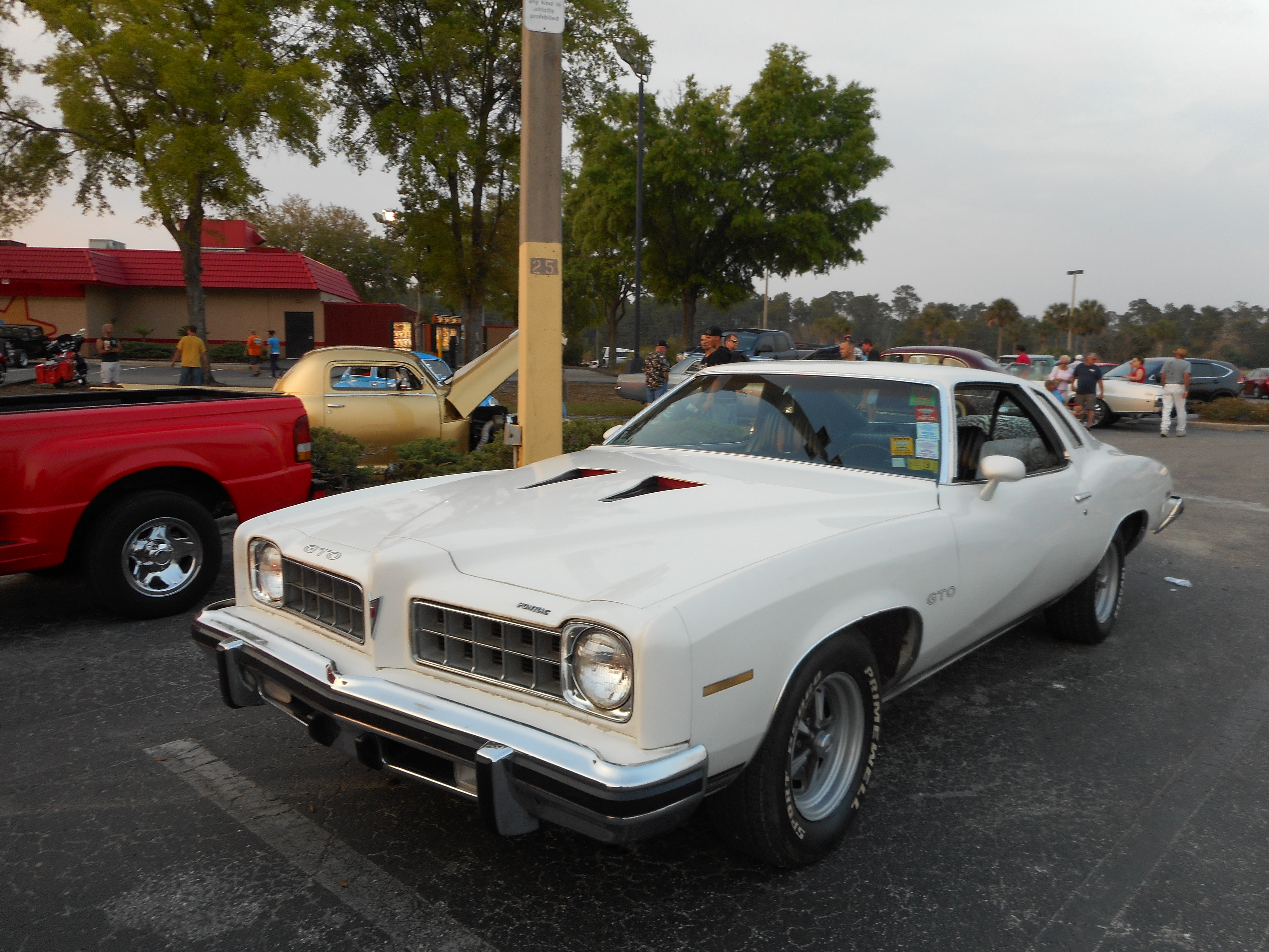 A white 1973 Pontiac GTO at the "Spring Hill Car Show," in Weeki Wachee, Florida. Further details to come later.